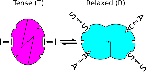 schema of an allosteric transition